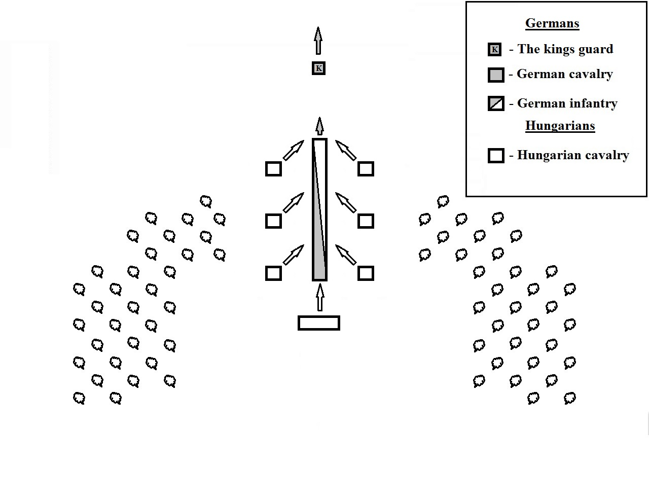 After the German cavalry was annihilated, the infantry and the kings guard arrived on the battlefield. The fast moving Hungarian archers encircle the infantry, which tries to run way, but it is almost completely destroyed. The kings mounted guard manage to save the king, by retreating in haste.